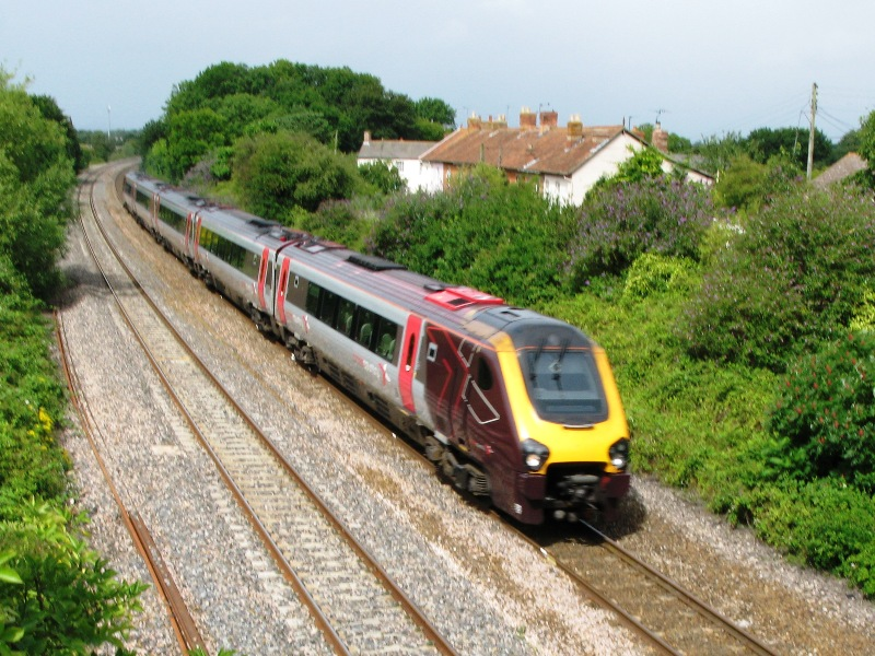 CrossCountry's 221136 speeds past the site of the former Creech St Michael halt in Somerset, England. The Chard branch line diverged from the main line just before it reached the station, the junction being in the distance of this view. The station has no visible remains.